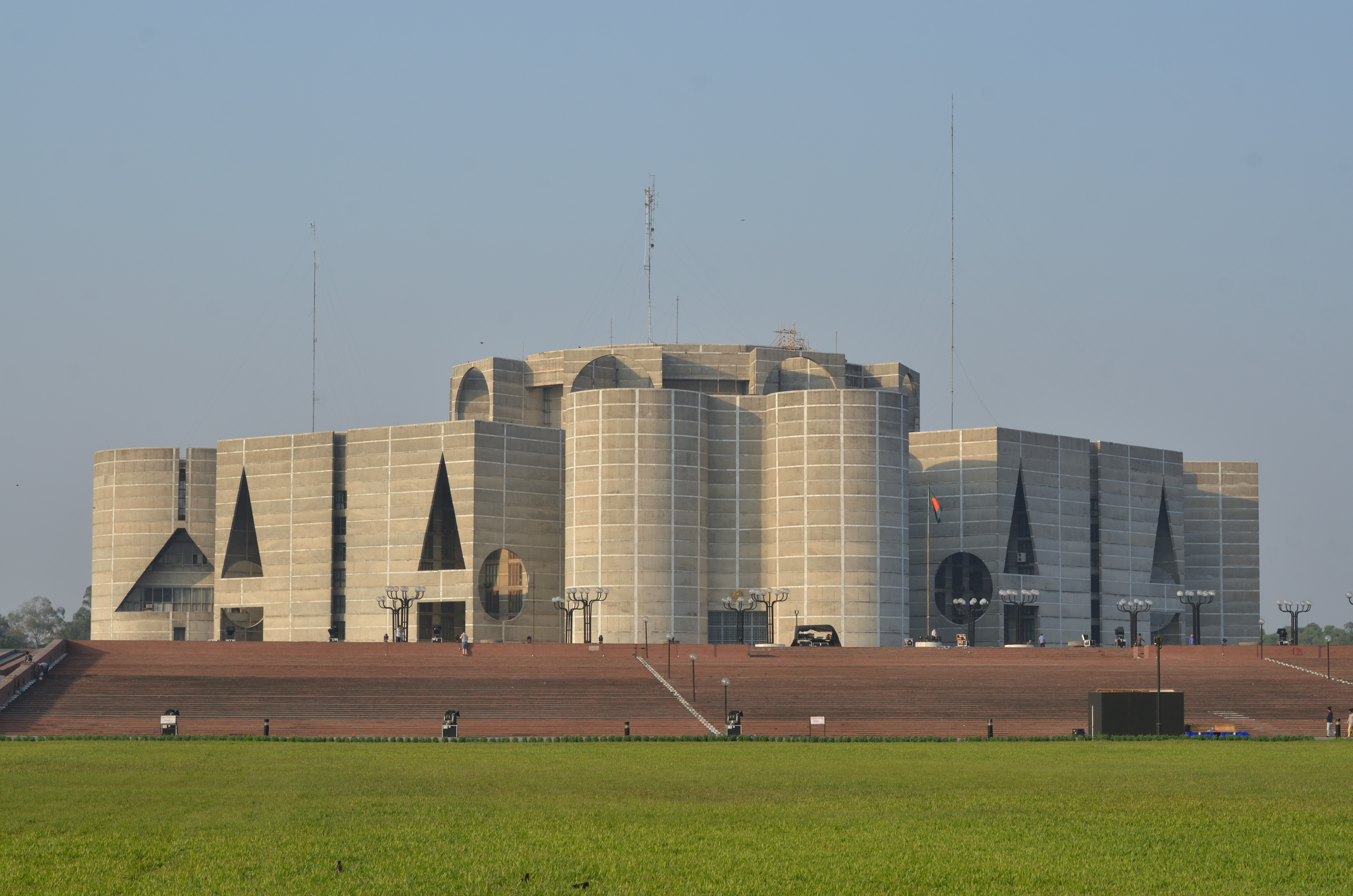 Jatiya Sangsad Bhaban or National Parliament House, (Bengali: জাতীয় সংসদ ভবন Jatiyô Sôngsôd Bhôbôn) is the house of the Parliament of Bangladesh, located at Sher-e-Bangla Nagar in the Bangladeshi capital of Dhaka. Designed by architect Louis Kahn, the complex is one of the largest legislative complexes in the world, comprising 200 acres (800,000 m²) The building was featured prominently in the 2003 film My Architect, detailing the career and familial legacy of its architect, Louis Kahn. Robert McCarter, author of Louis I. Kahn, described the National Parliament of Bangladesh as one of the twentieth century's most significant buildings